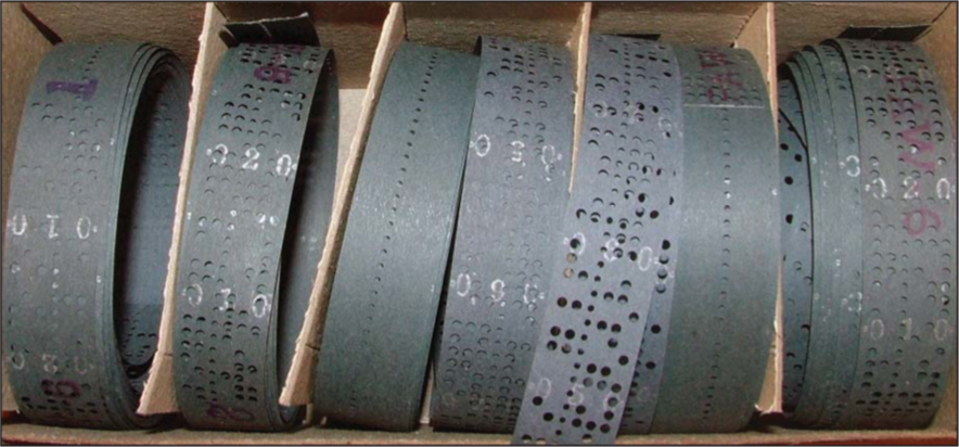 Five rolls of punched paper tape used to key the M-134 cipher machine, predecessor of the SIGABA. Note markings printed on tape to index initial settings.